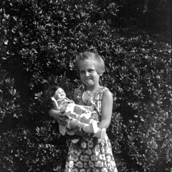 A girl wearing a dress with a flower print and holding a doll with both hands.